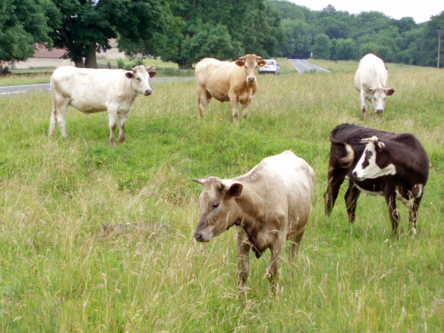 Cows on Selsley Common. With so much land to roam on, these cows have chosen to find pasture perilously close to the B4066. Cattle grids placed a strategic locations prevent the cattle from straying from the commonland.